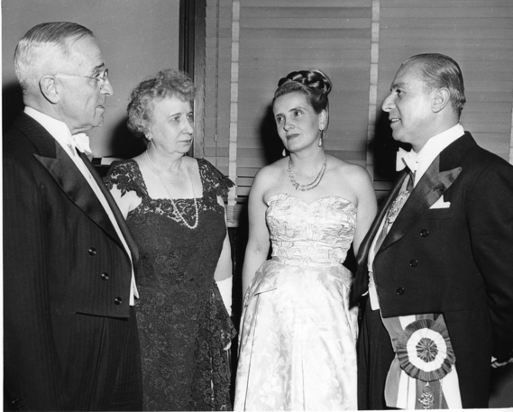 From left to right, President Harry S. Truman, First Lady Bess W. Truman, Mrs. Rosa Gonzalez Videla, and President Gabriel Gonzalez Videla of Chile before a dinner reception, during the Chilean President's visit to the United States.